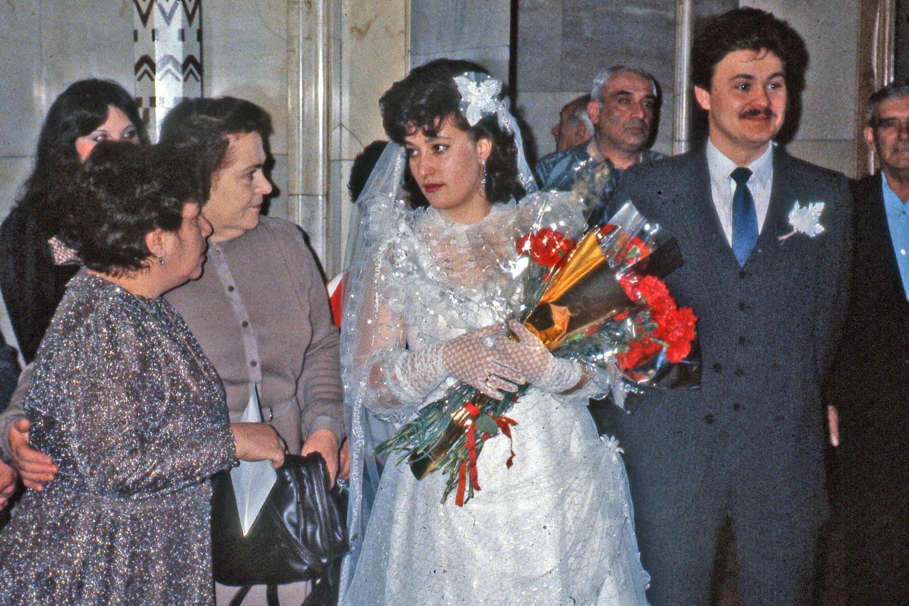 Bride talks with women while groom stands at her side, Moscow, Russia, 1990